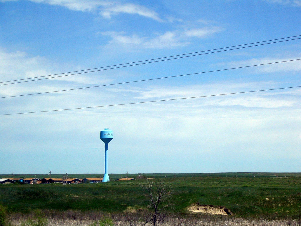 Fields surrounding village of Wanblee, South Dakota